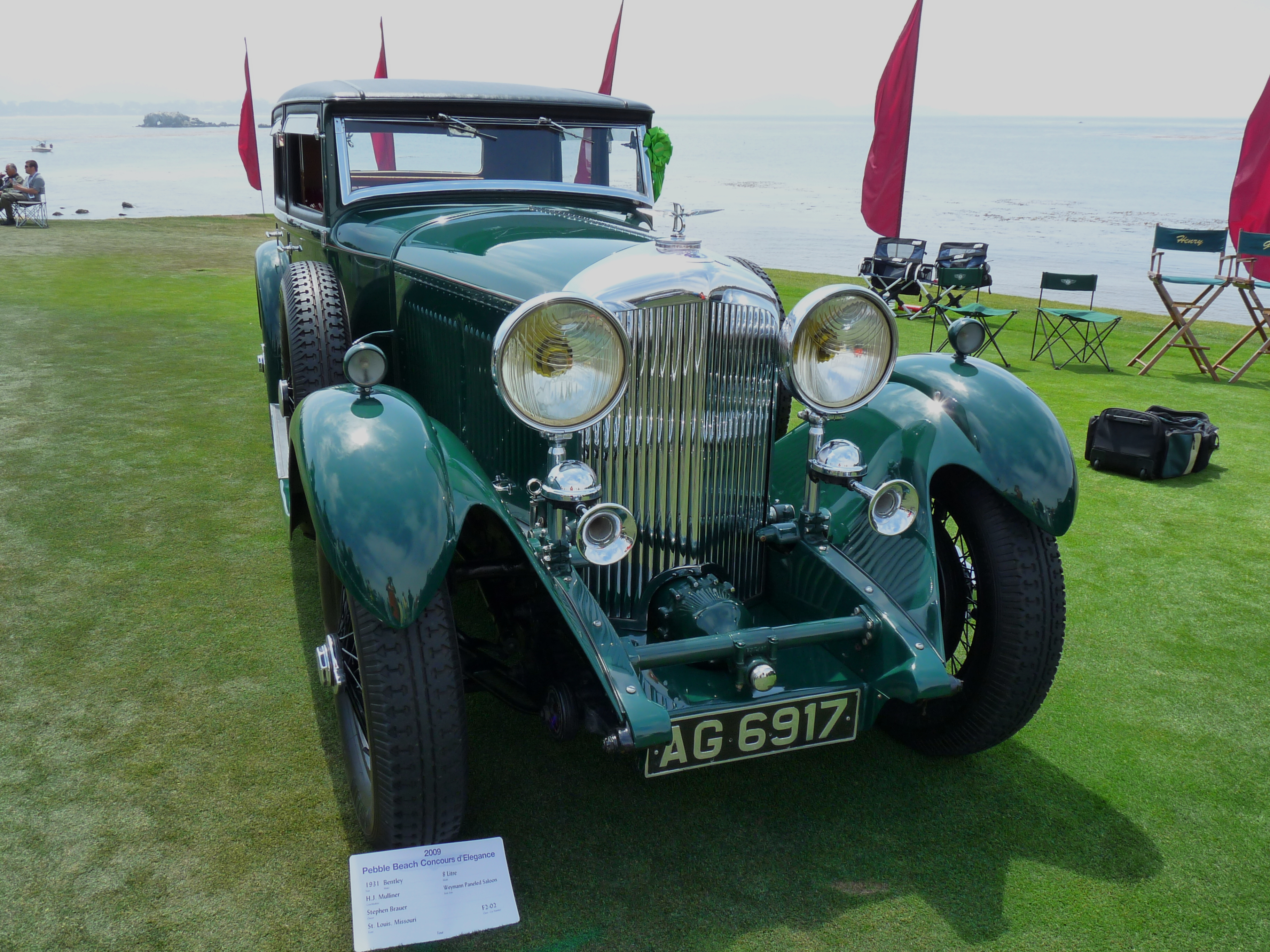 1931 Bentley 8 Litre Vanden Plas saloon at 2009 Pebble Beach Concours d'Elegance Chassis YX5115 12' (144") wheelbase Engine YX5117 Reg AG 6917 delivered August 1931 to Lt Cdr Leake Source of data—Vintage Bentleys.